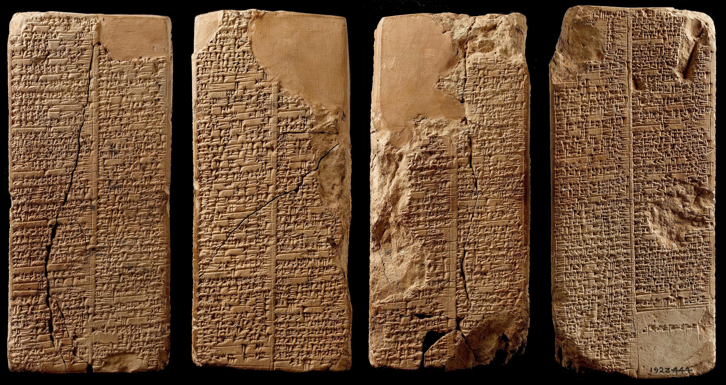 Sumeriankinglist